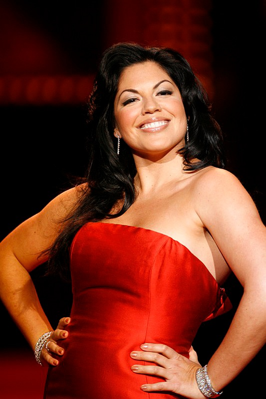 Sara Ramirez modeling at The Heart Truth Fashion Show 2008